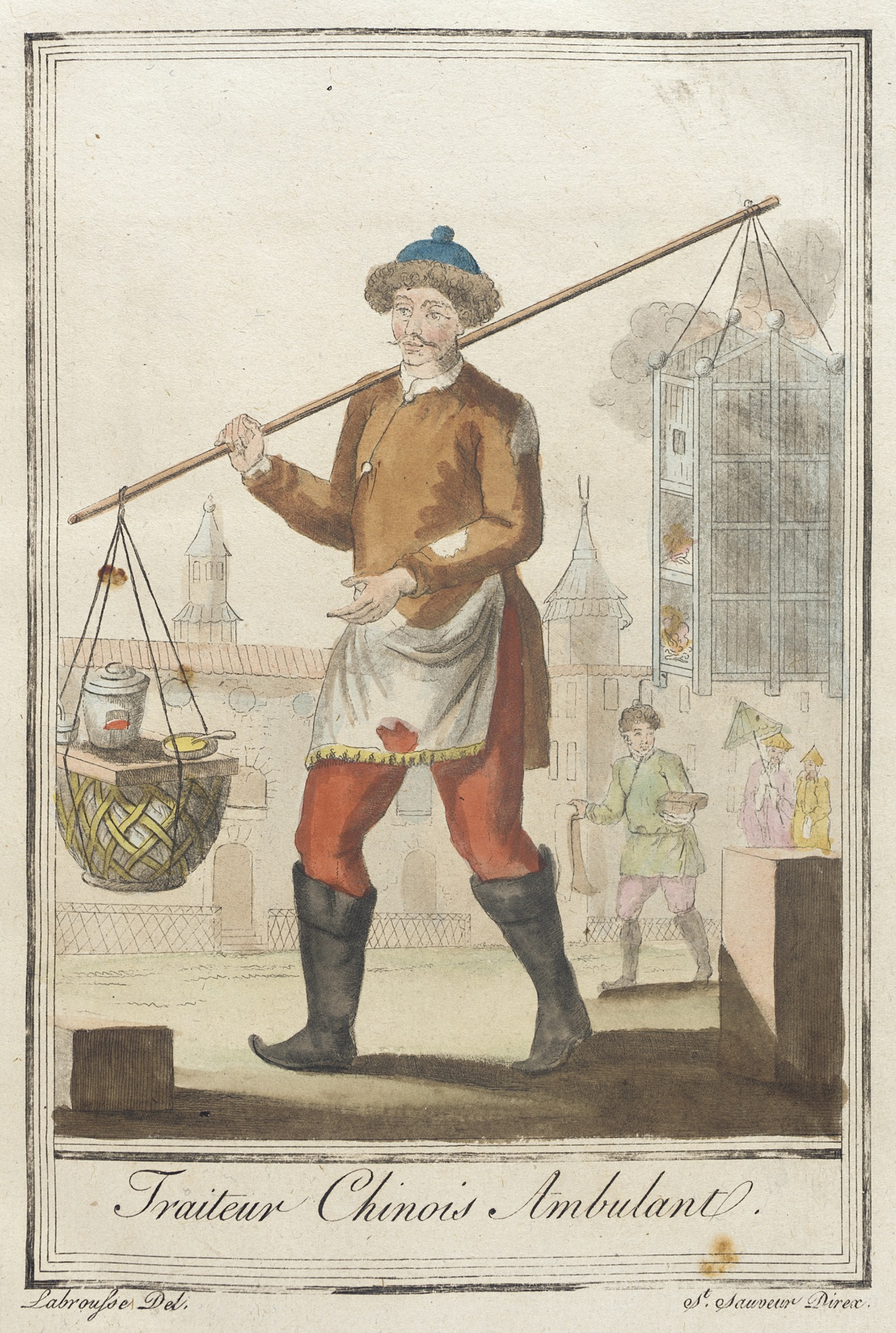 France, circa 1797 Prints; engravings Hand-tinted engraving on paper Sheet: 10 3/8 x 7 7/8 in. (26.35 x 20.01 cm); Composition: 7 5/8 x 5 1/2 in. (19.37 x 13.97 cm) Costume Council Fund (M.83.190.176) Costume and Textiles